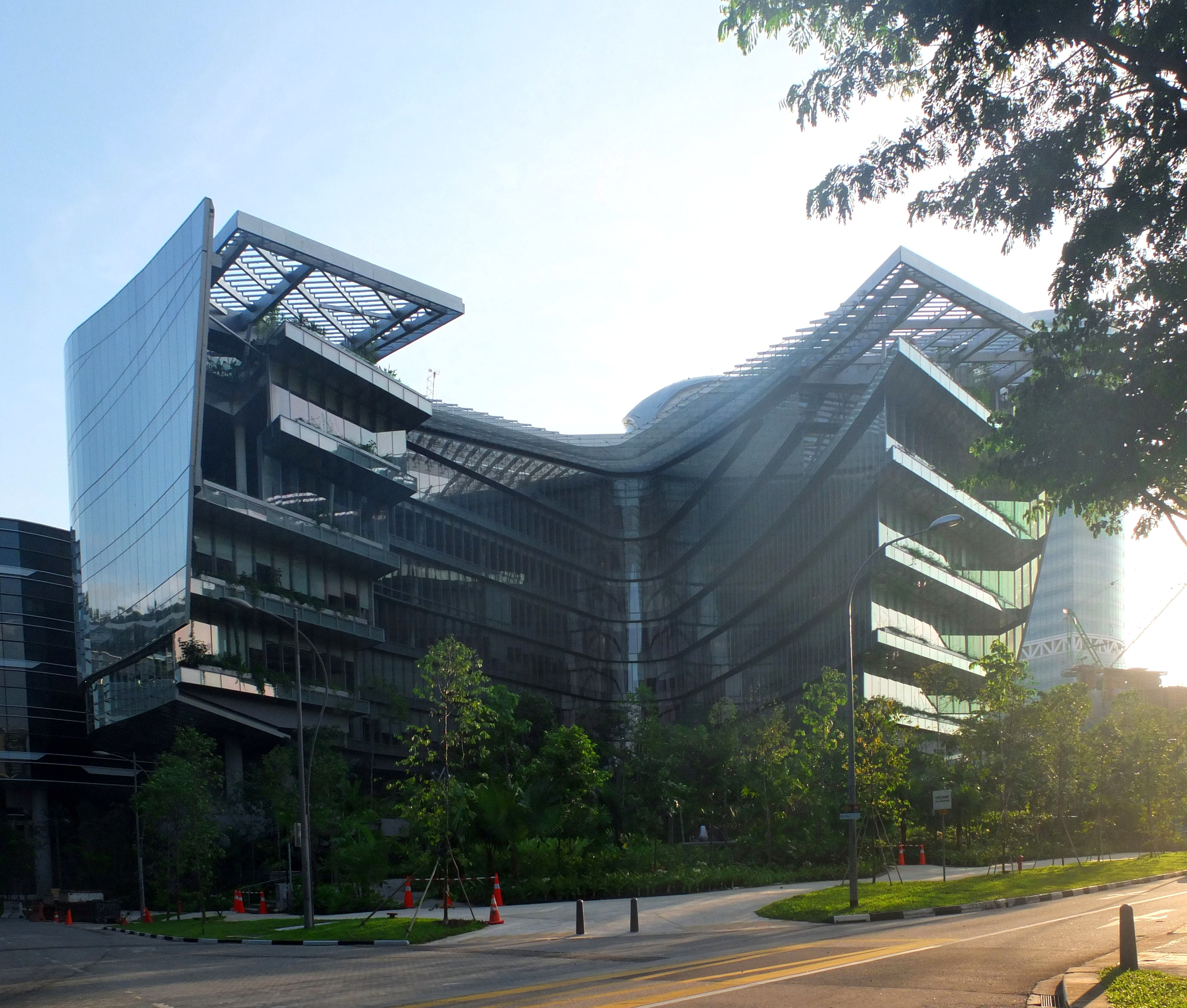 Picture of the Sandcrawler Building, Singapore Headquarters for Lucasfilm